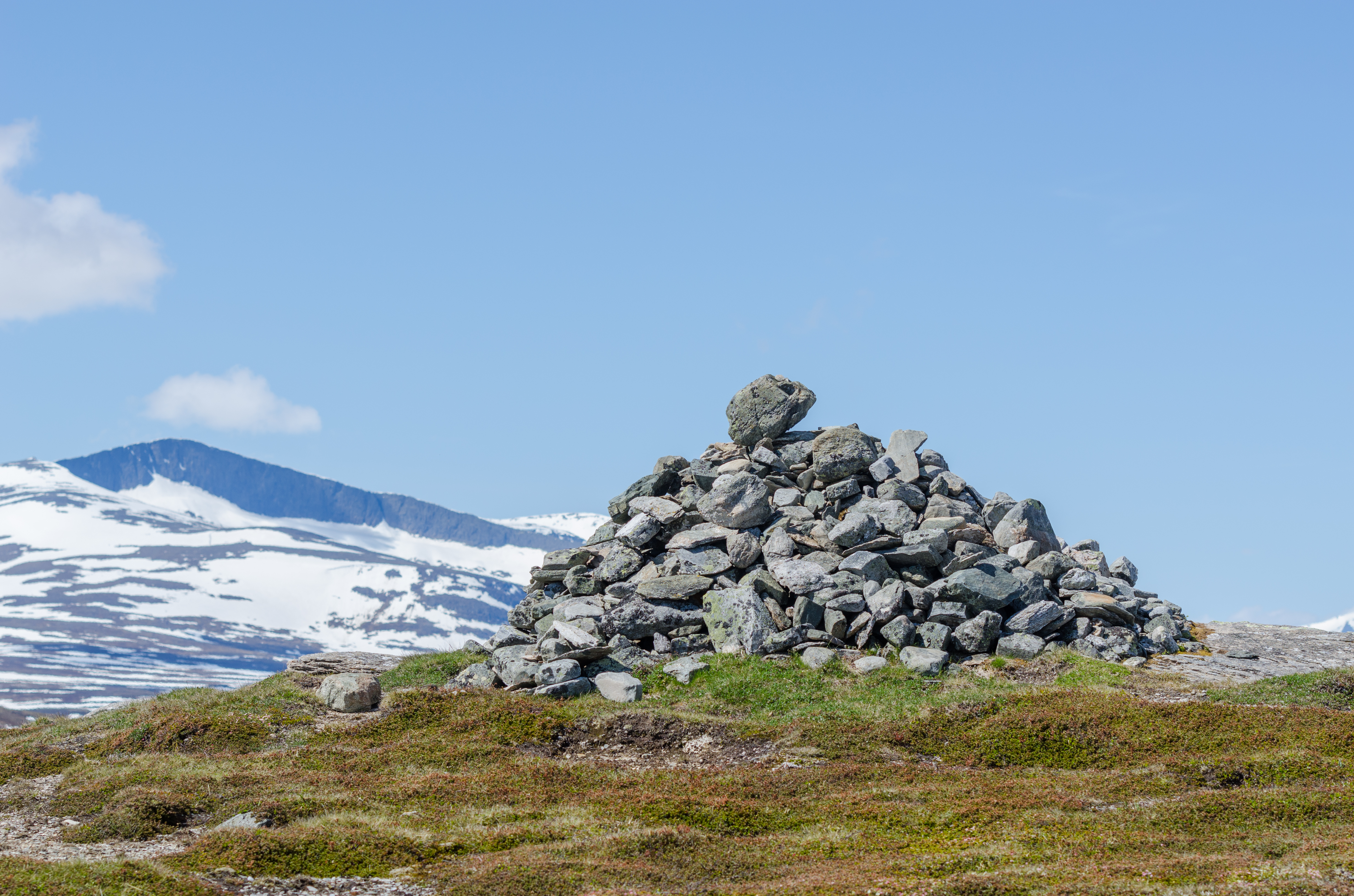 Cairn at the summit of Mount Torkilstöten (and Mount Helags in the background), Ljungdalen, Bergs municipality, Jämtland County.